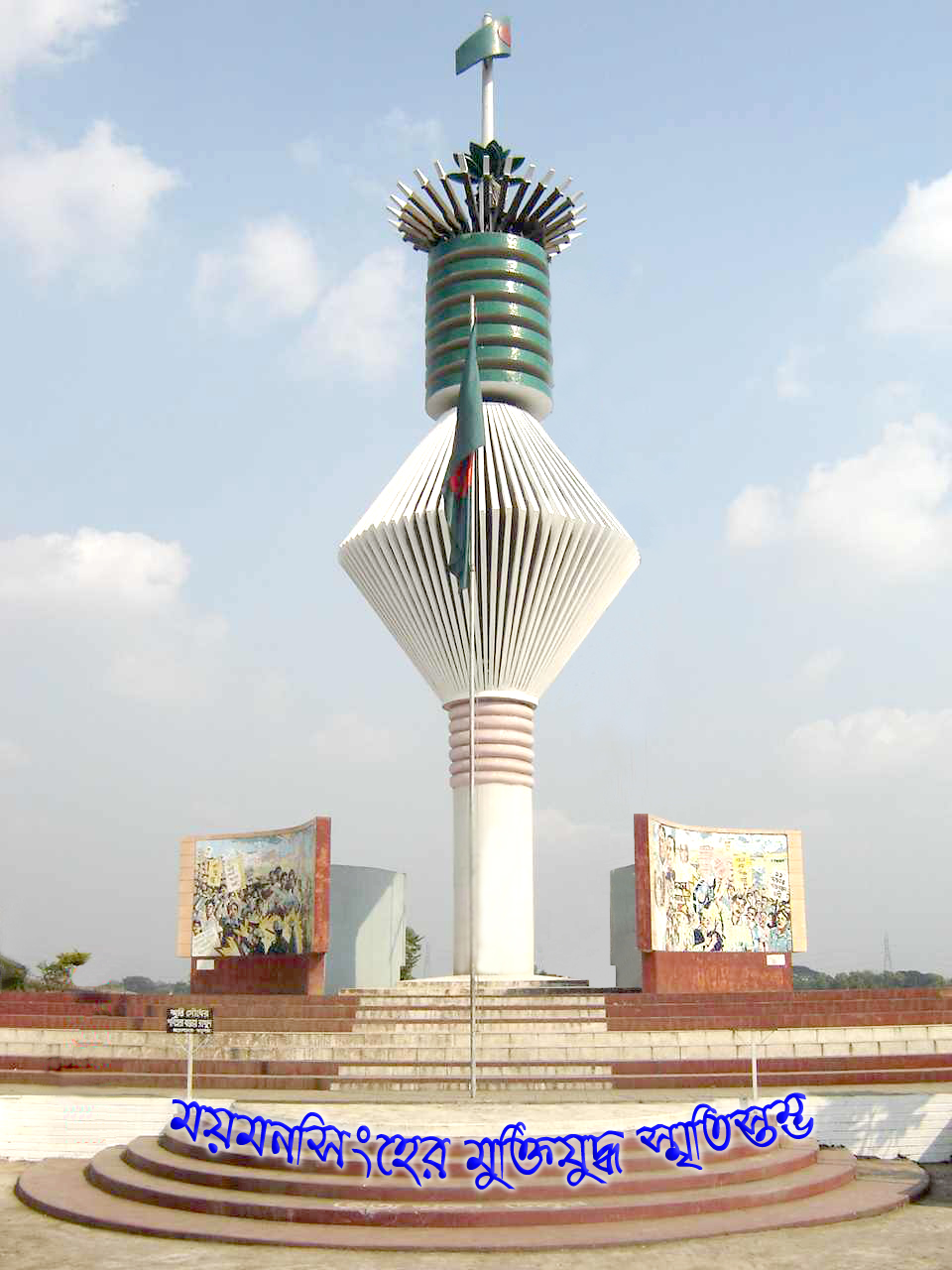 Monument for liberation war of Bangladesh, Mymensingh.